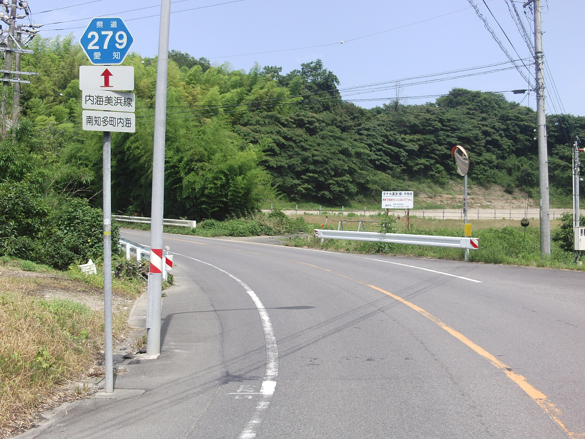 Aichi prefectural road No.279 in Utsumi, Minamichita-cho, Chita-gun, Aichi.